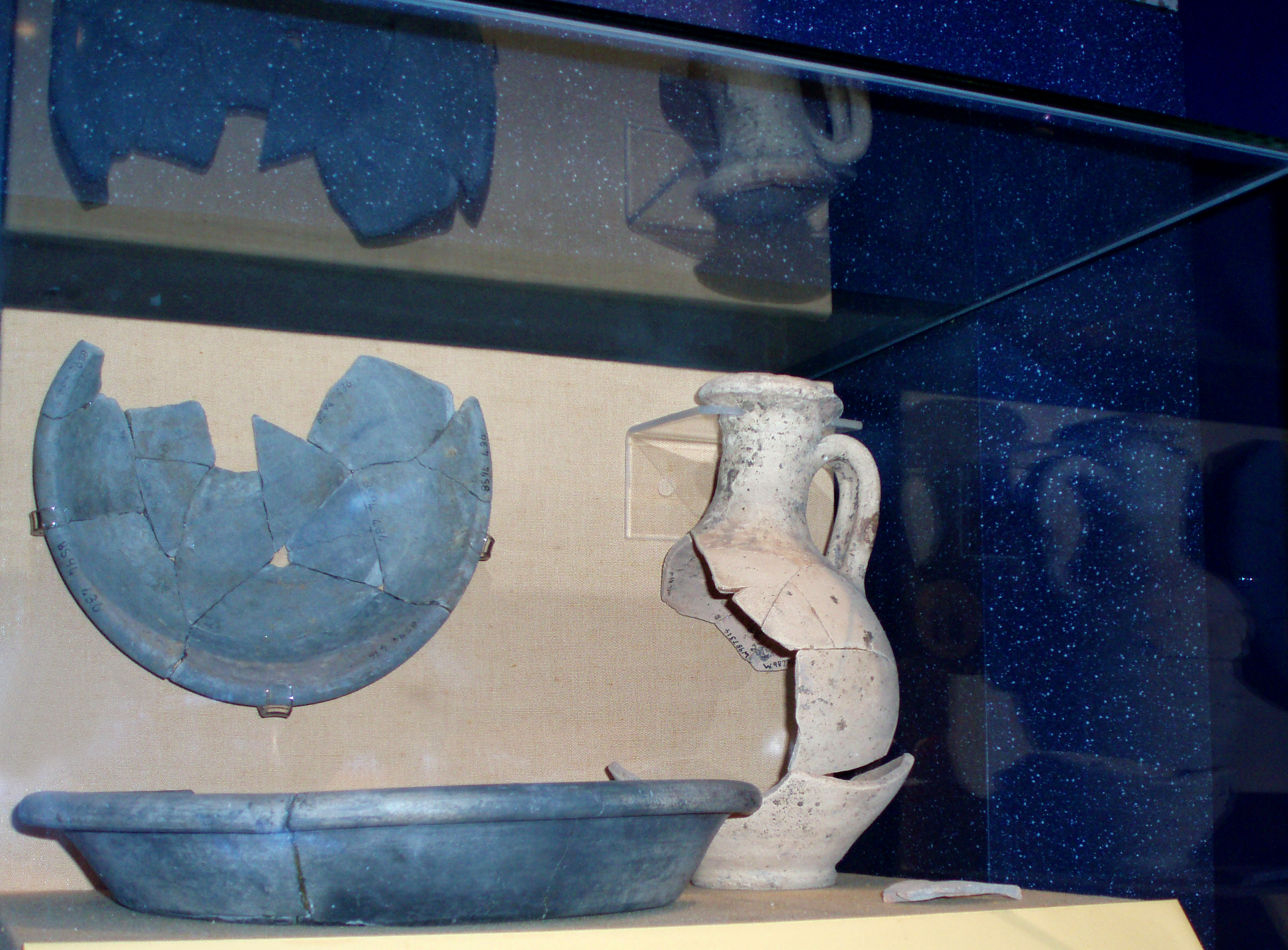 Eating and drinking Dishes and flagons: one fragment of flagon has the letters \'...SVM\' scratched on it, possibly the end of the word mulsum (honeyed wine) This photo was taken as part of Britain Loves Wikipedia in February 2010 by James Murray.